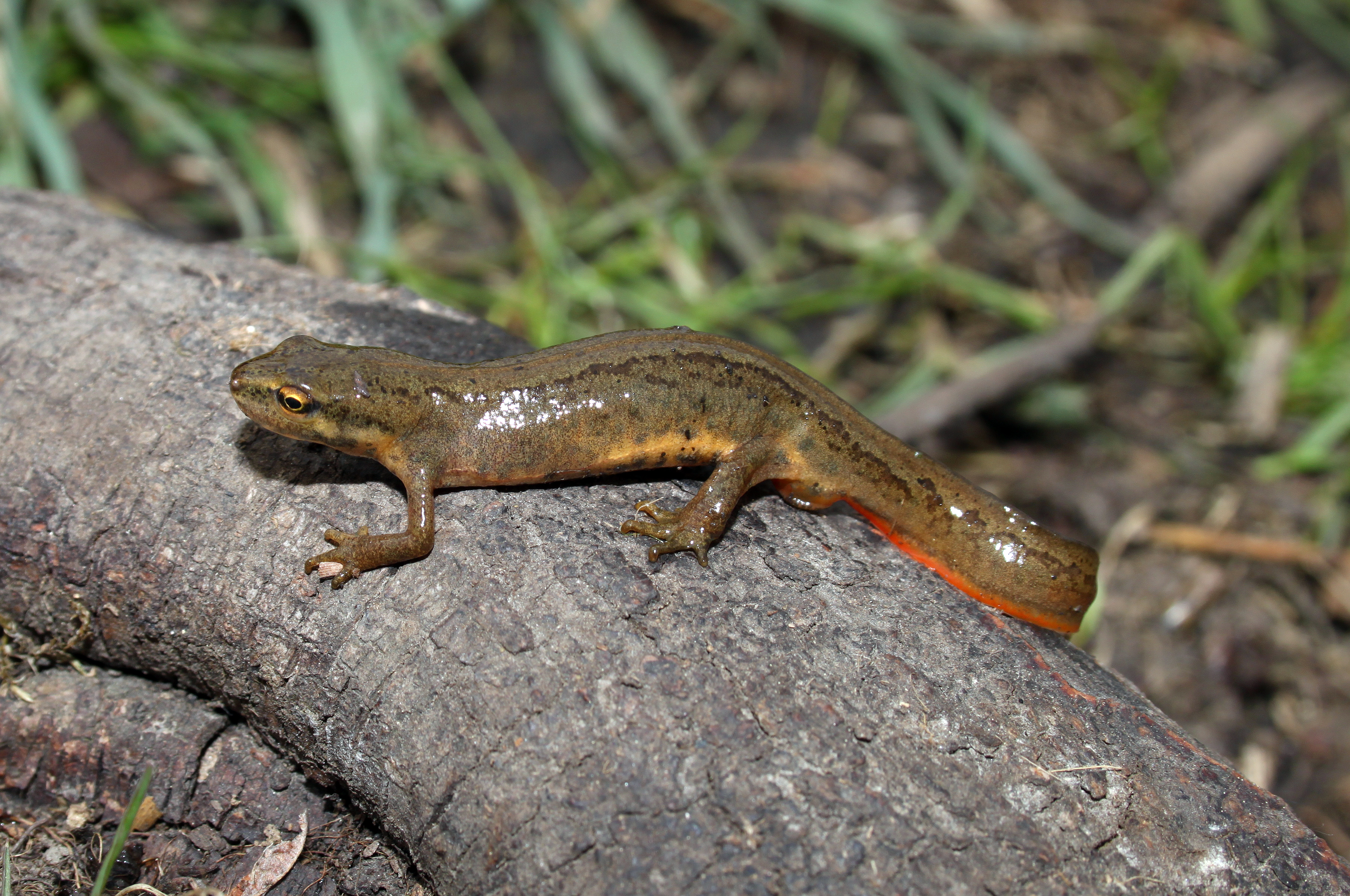 Smooth Newt or Common Newt, Lissotriton vulgaris orTriturus vulgaris, Family: Salamandridae; female specimen. Location: Southern Germany, Torfgrube